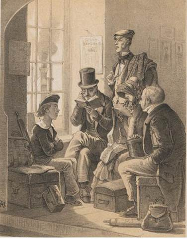 English People (from the Düsseldorfer Künstleralbum)